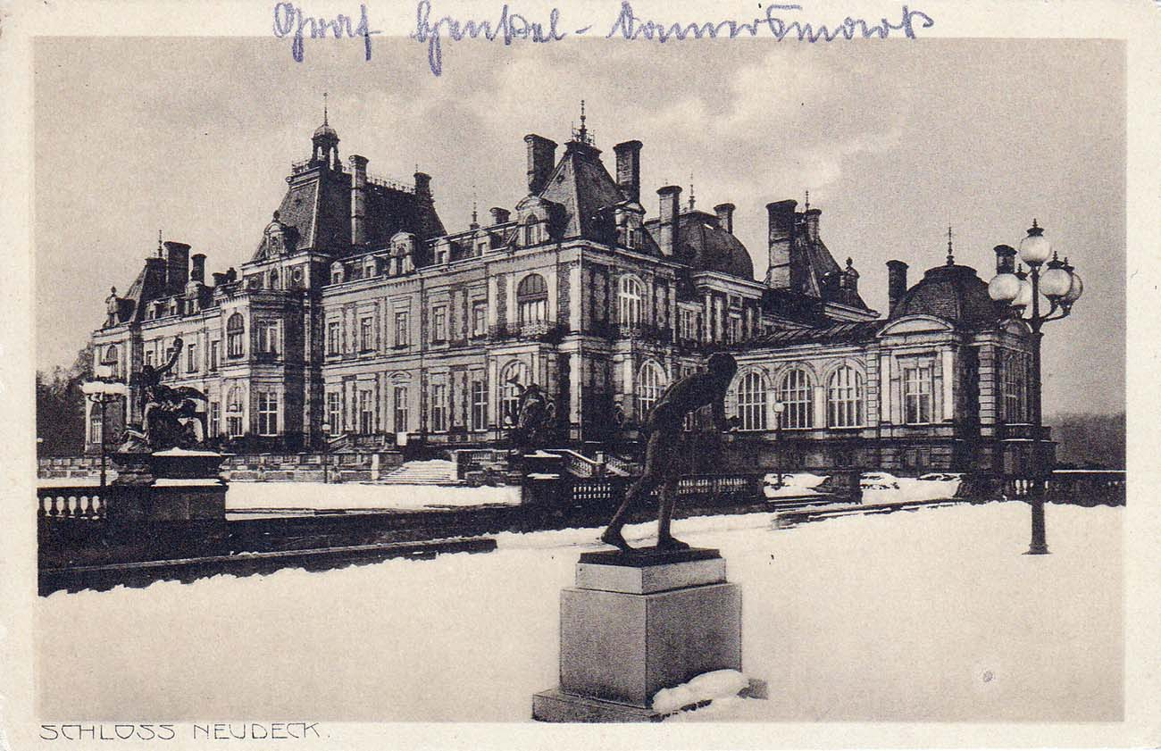 Postcard view of Schloss Neudeck, circa 1890